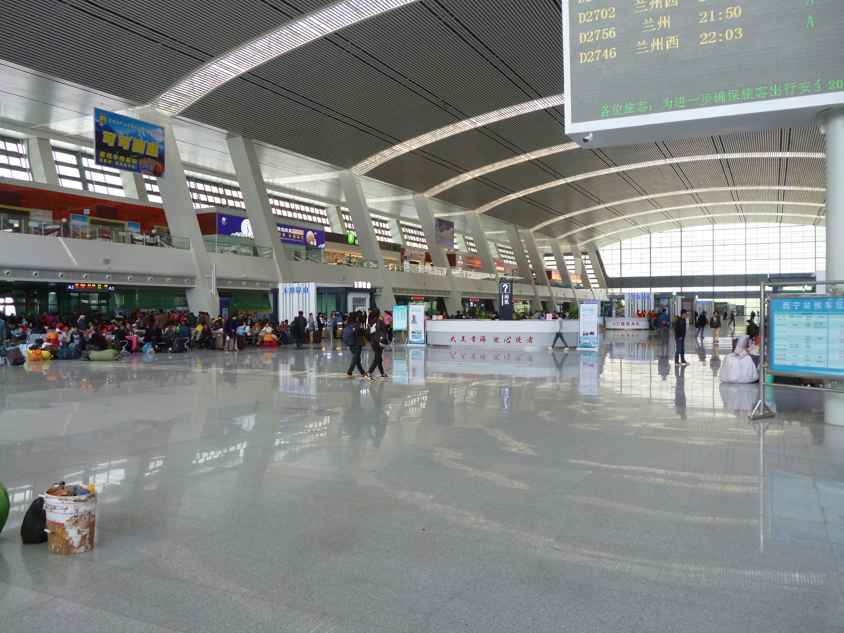 New Railway-Sation in Xining, China